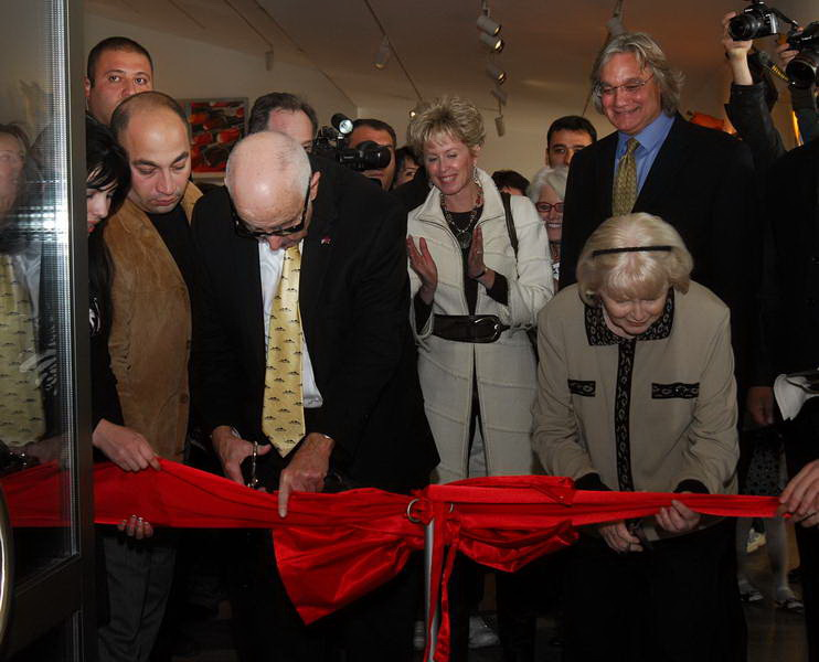 Gerard and Cleo Cafesjians cutting the red ribbon at the official opening ceremony of the Cafesjian Center for the Arts, November 8, 2009